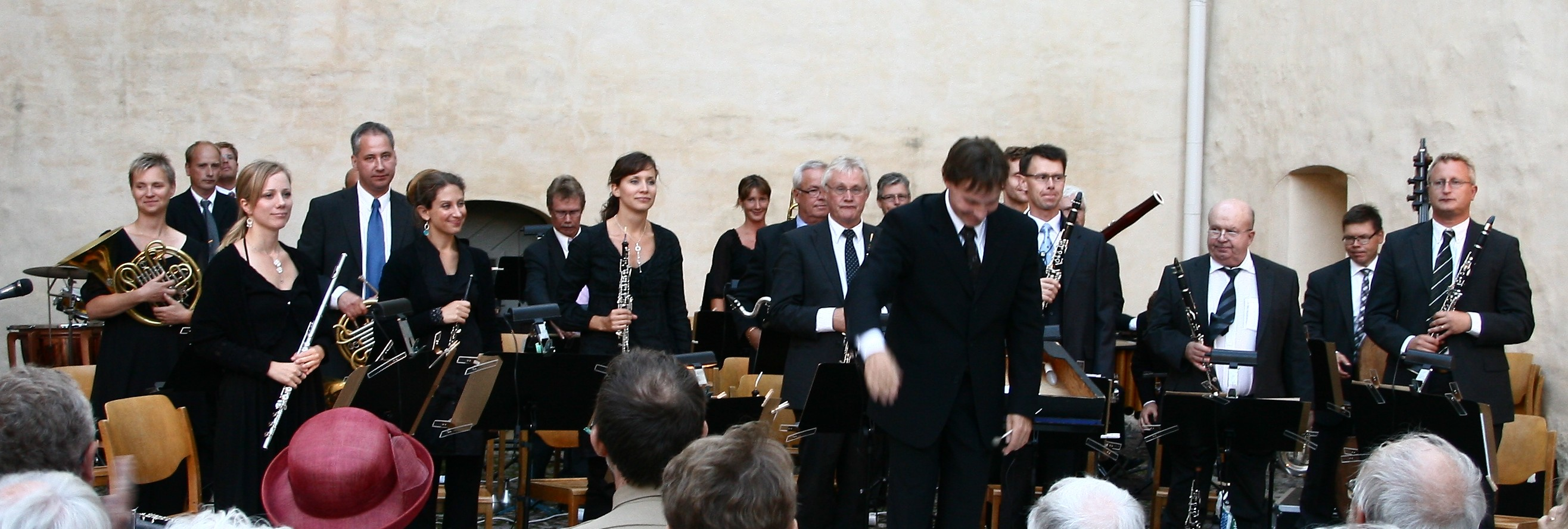 Östgöta Blåsarsymfoniker (wind orchestra) standing with conductor Hannu Koivula, at the festival Östergötlands musikdagar 2009, at Linköping castle in Linköping, Sweden. Cropped from File:LA2 Ostgota blasarsymfoniker 20090808 standing.JPG.